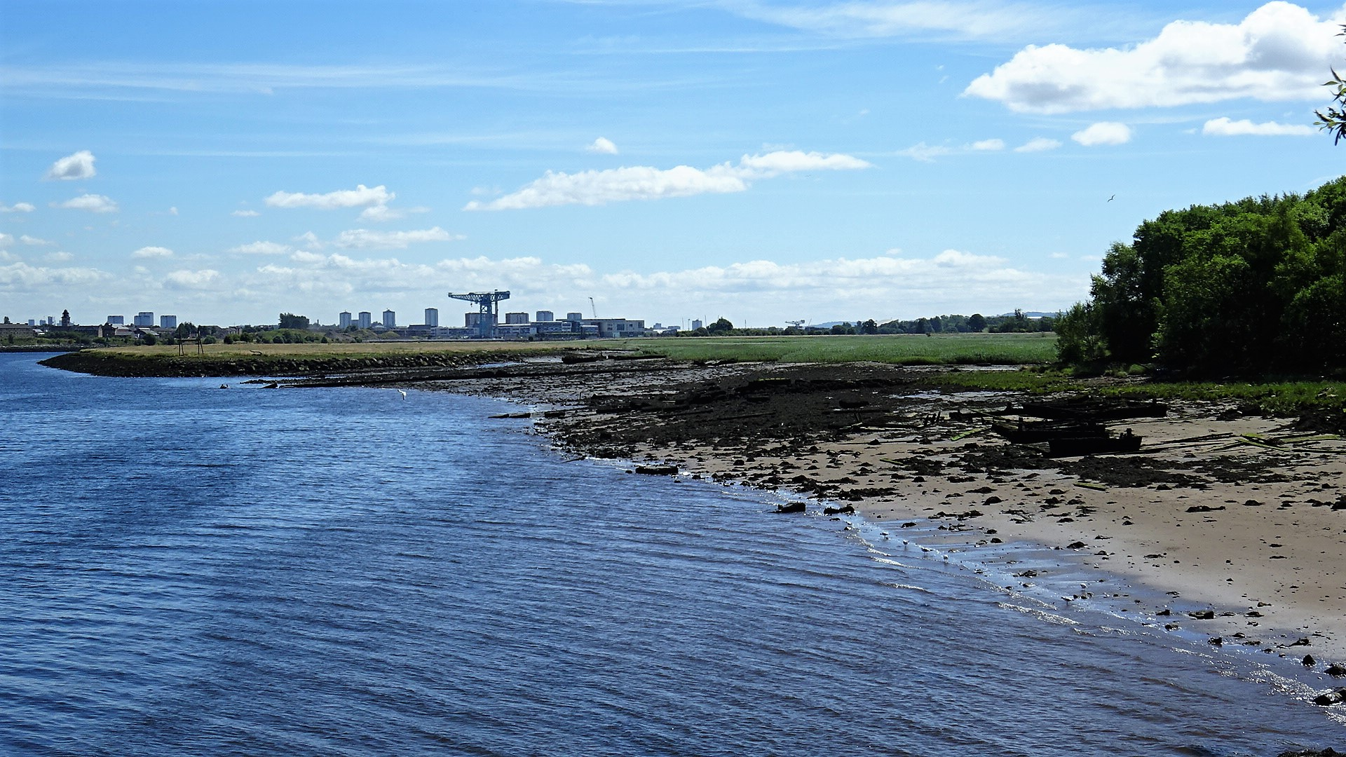 Newshot Island from the nature reserve at low tide, River Clyde, Scotland.